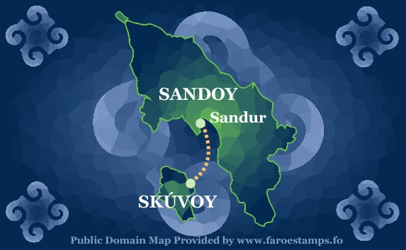 Ferry line "Route 66" from Sandur to the island of Skúvoy, Faroe Islands